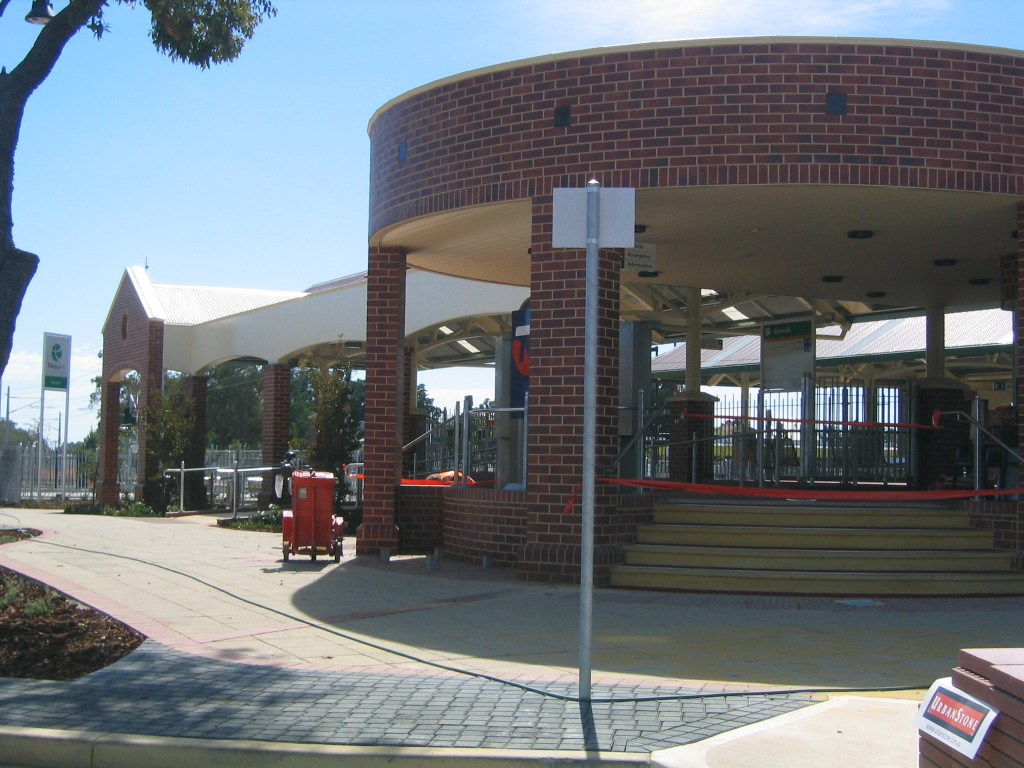 Transperth Gosnells Train Station